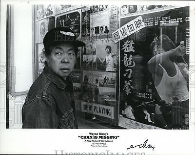 Woody Moy press promo photo by Nancy Wong